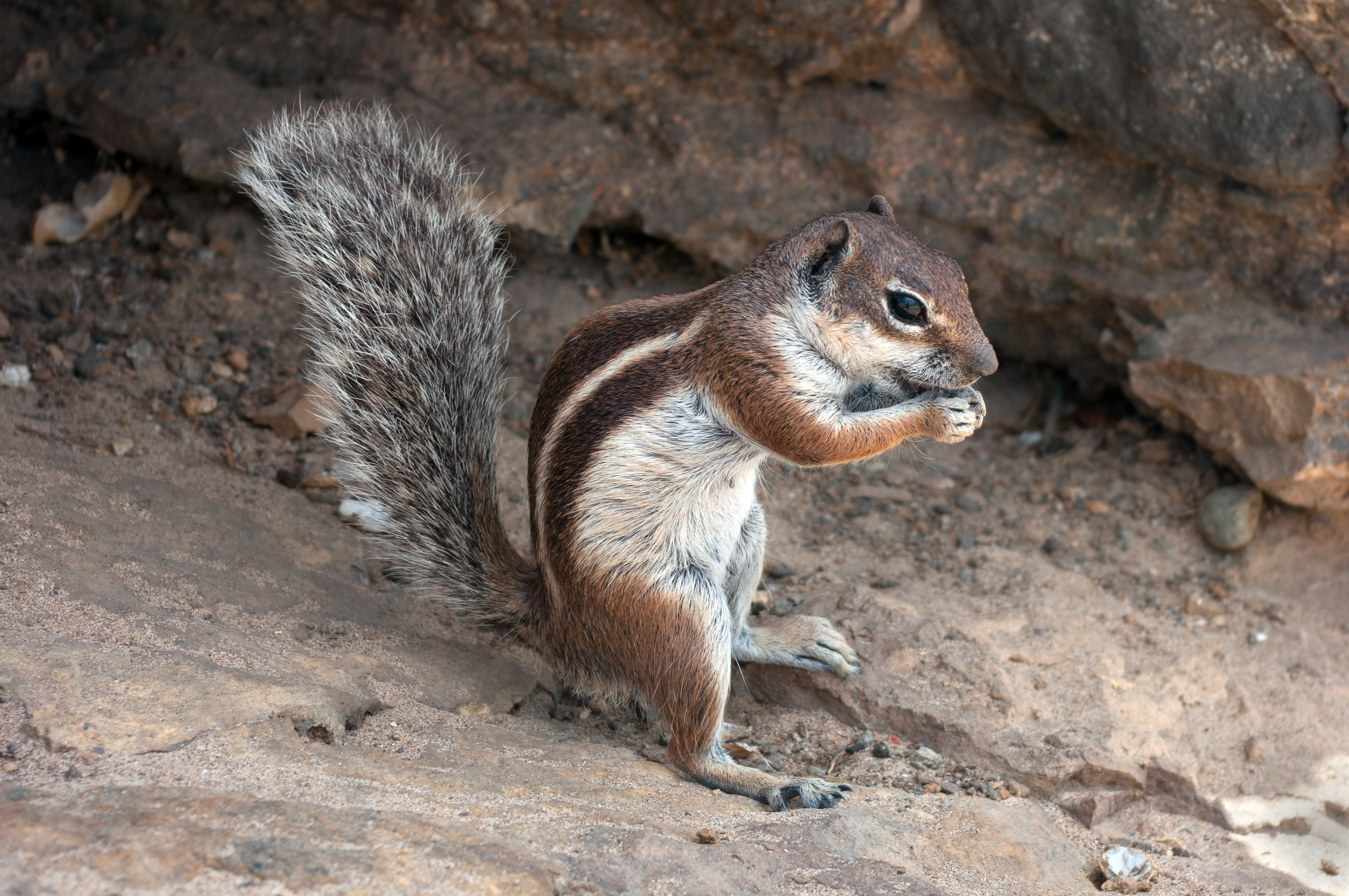 Barbary ground squirrel (Atlantoxerus getulus) on Fuerteventura (Costa Calma)